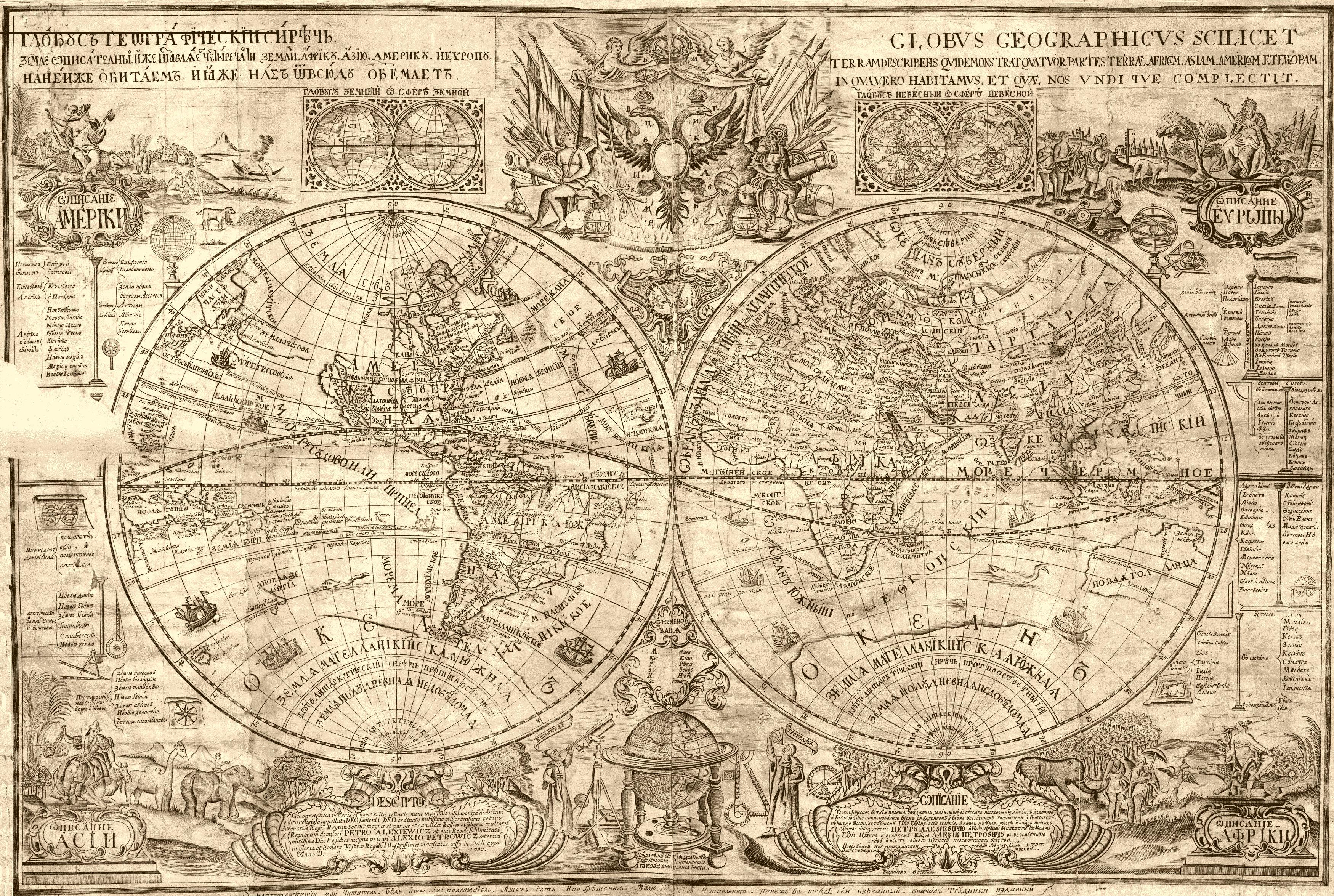 Map of the world, prepared by Vasily Kiprianov. Begining of the 18th century